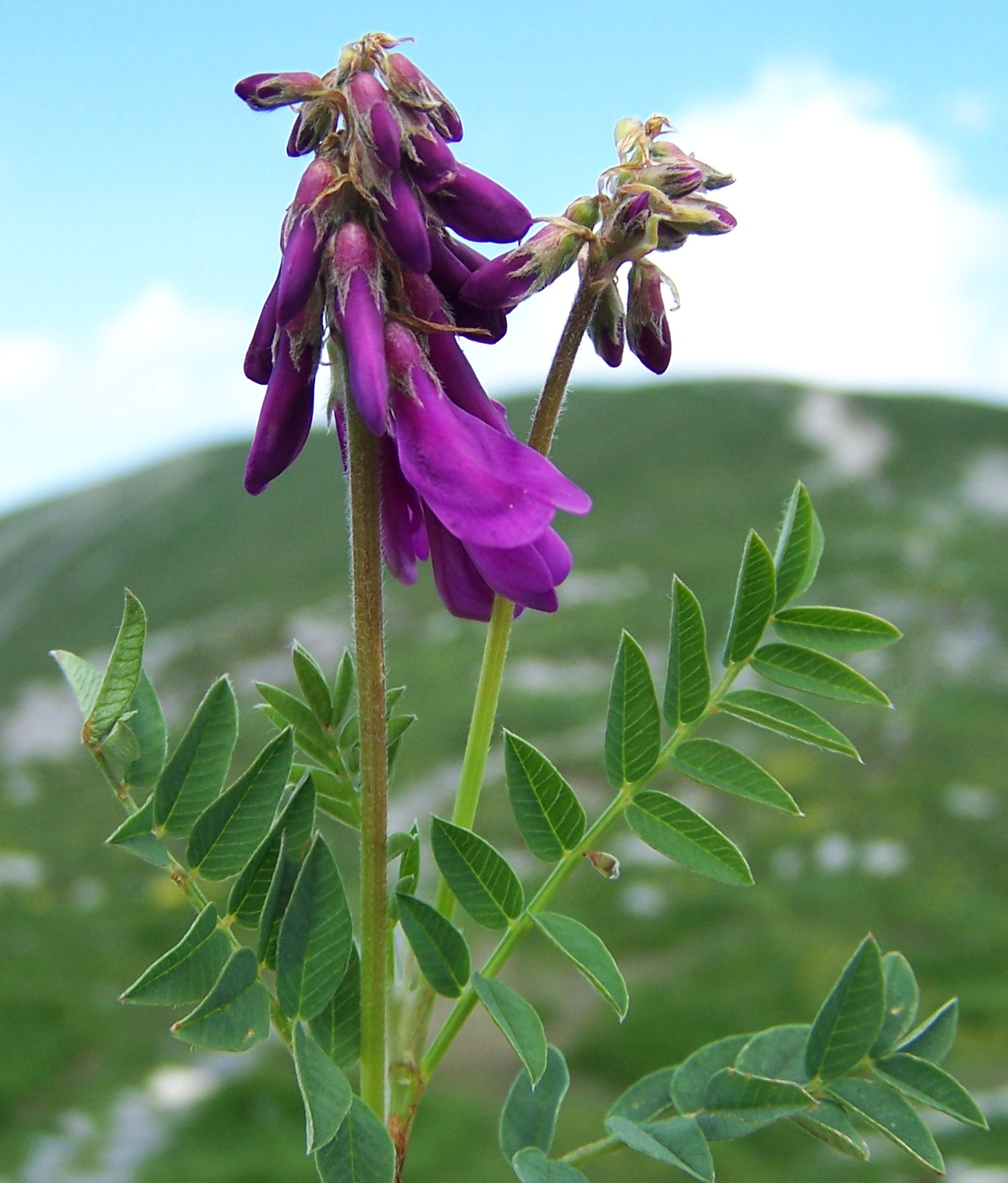 Hedysarum heydysaroides (West Tatra Mountains, Hala Upłaz)